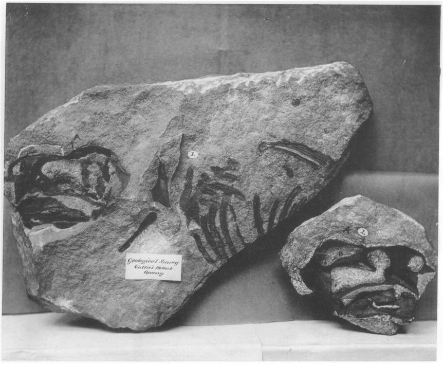 Photograph of a cast of the holotype specimen of Gordonia traquairi, from "Reptiles from the Elgin Sandstone. Description of Two New Genera" by E. T. Newton (Philosophical Transactions of the Royal Society of London. B 185: 573-607).